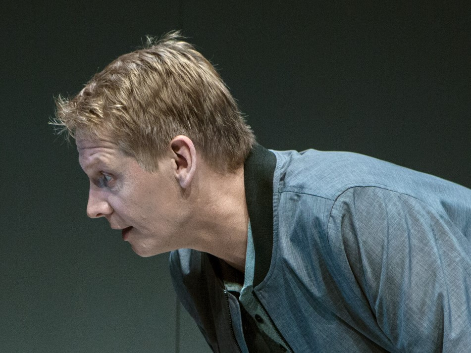 Morten Lützhøft in the Copenhagen theater Folketeatret's production of the play "Min far" (Le Père) by Florian Zeller.